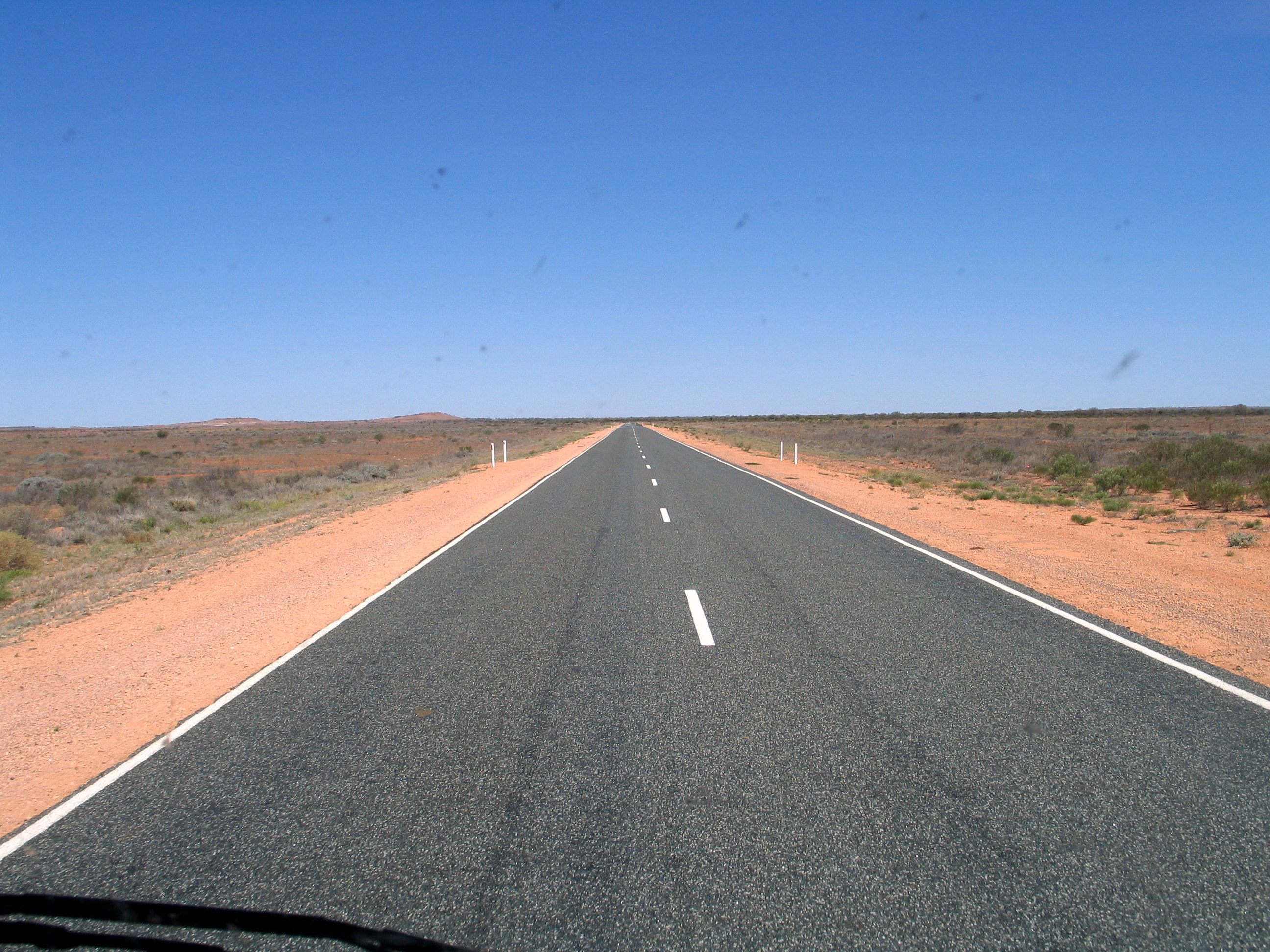 Stuart Highway